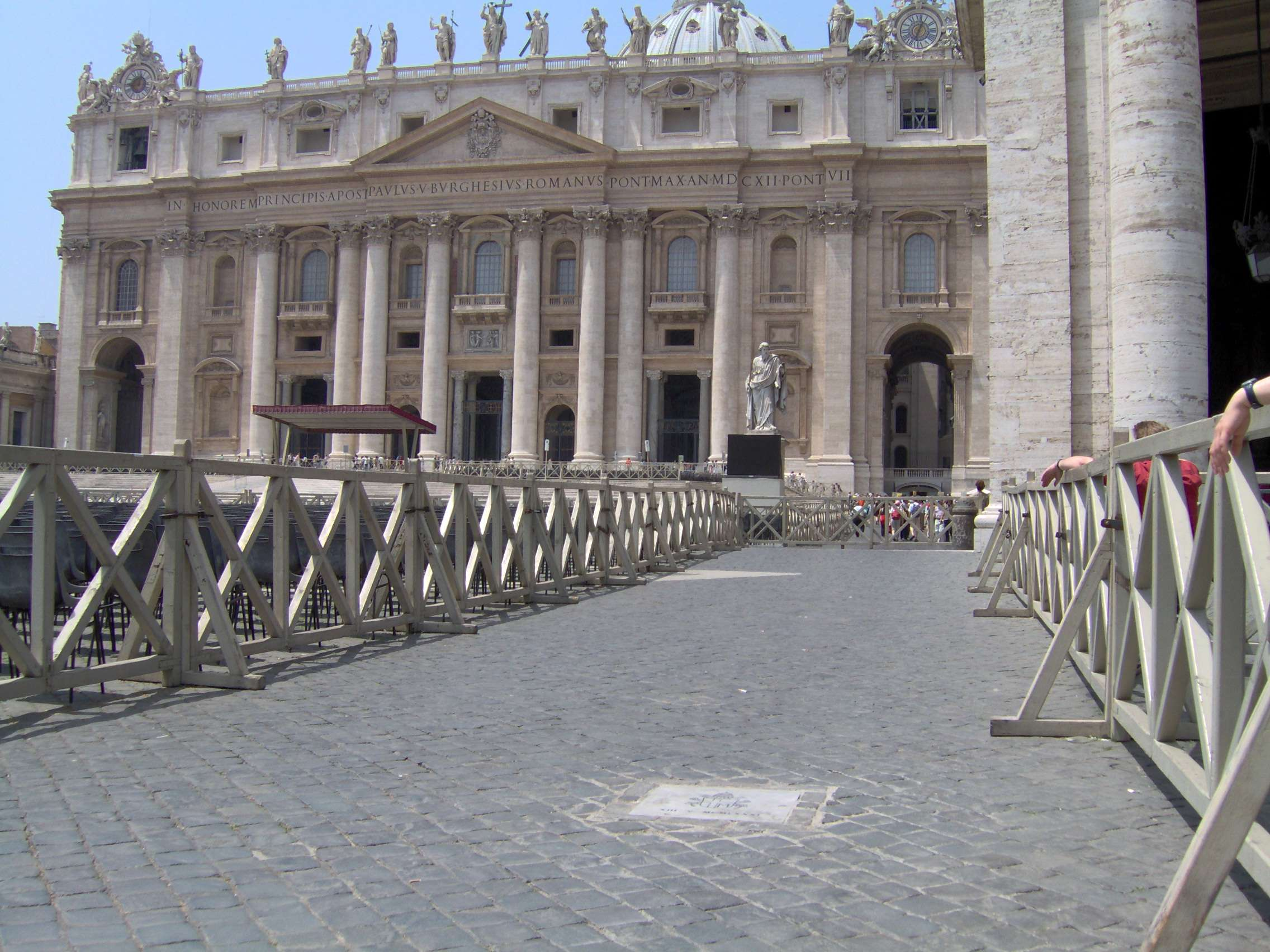 The site of the en:1981 Pope John Paul II assassination attempt. Self taken, 2006.